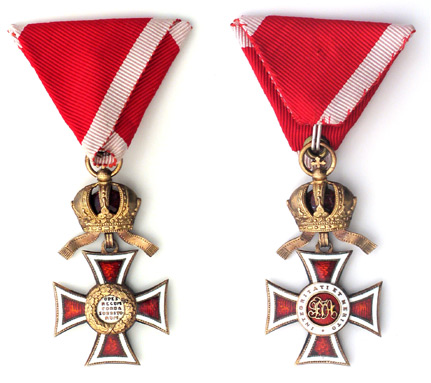 Osztrák Császári Lipót-rend lovagkeresztje